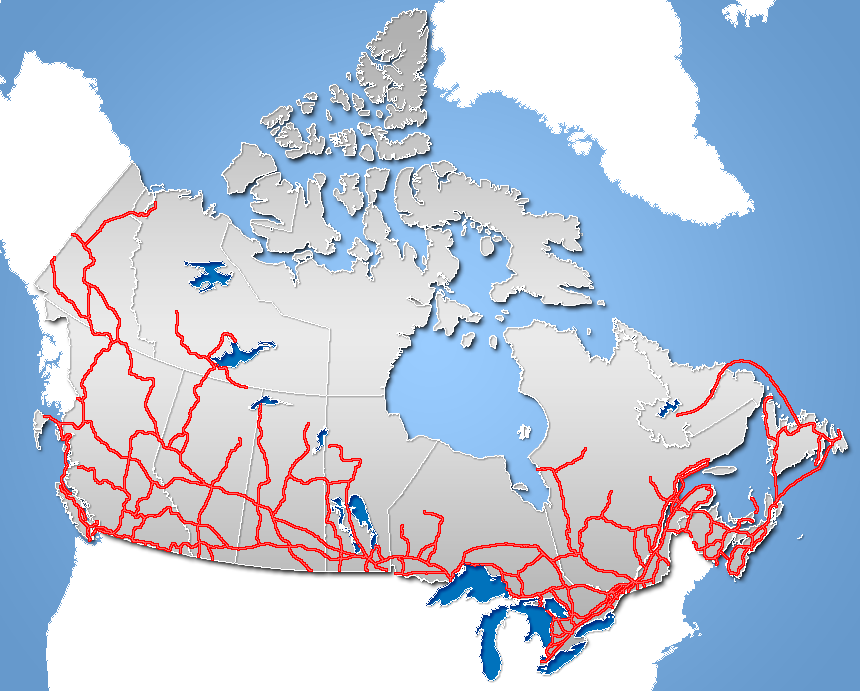 Major Road Network of Canada (includes Ferry Routes)